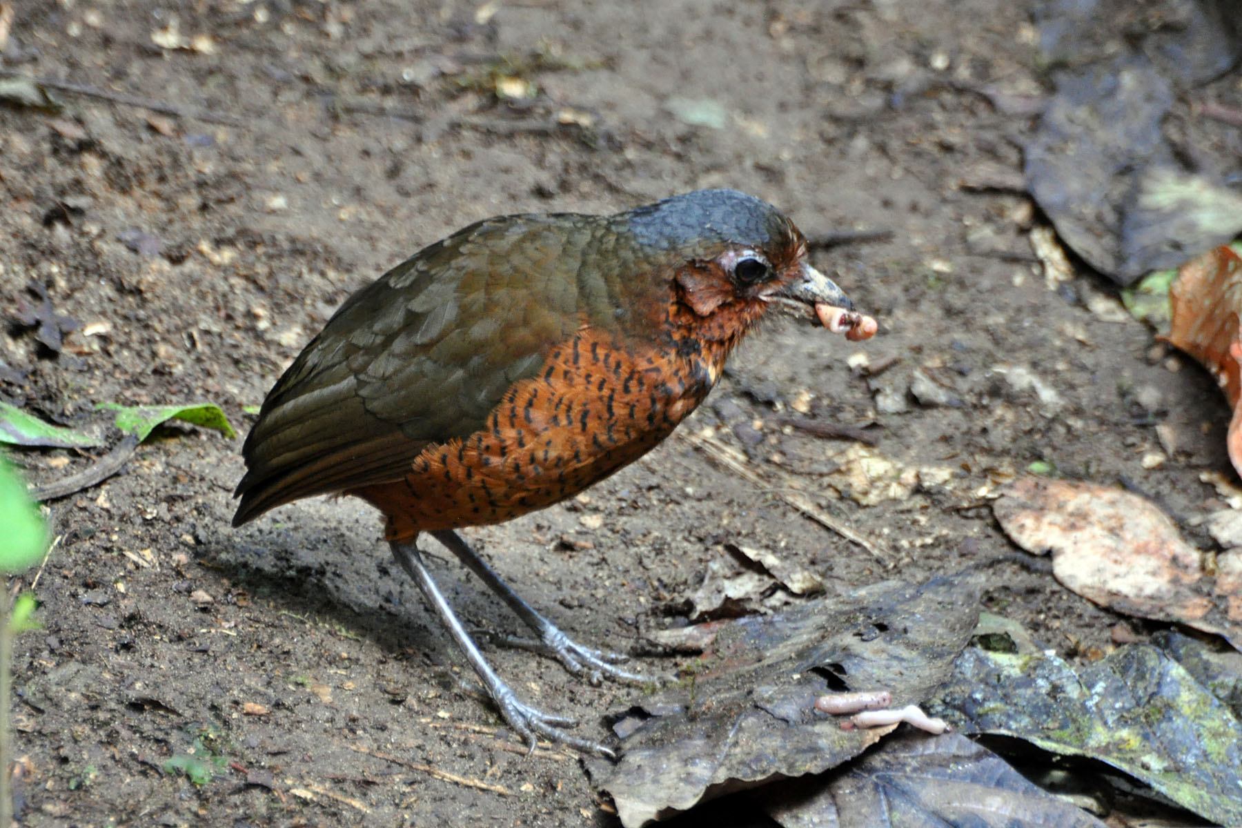 A Giant Antpitta in Ecuador.